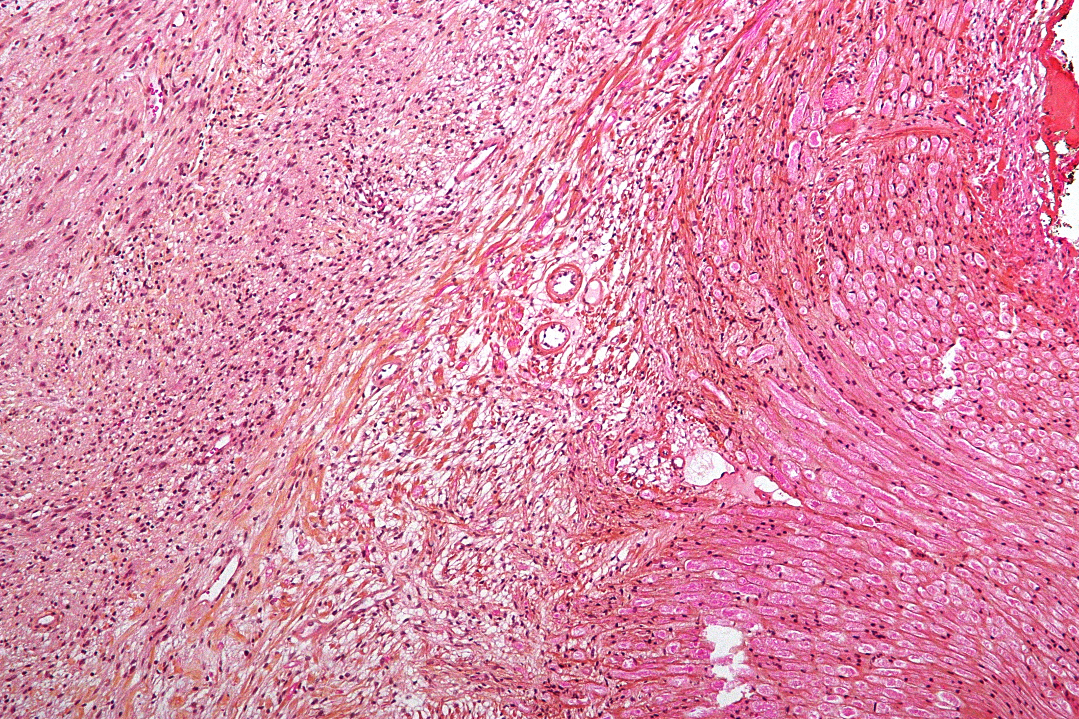 Very high magnification micrograph of a nerve root with an associated schwannoma, also known as a nerve root schwannoma. HPS stain. Related images Intermed. mag. High mag. Very high mag.